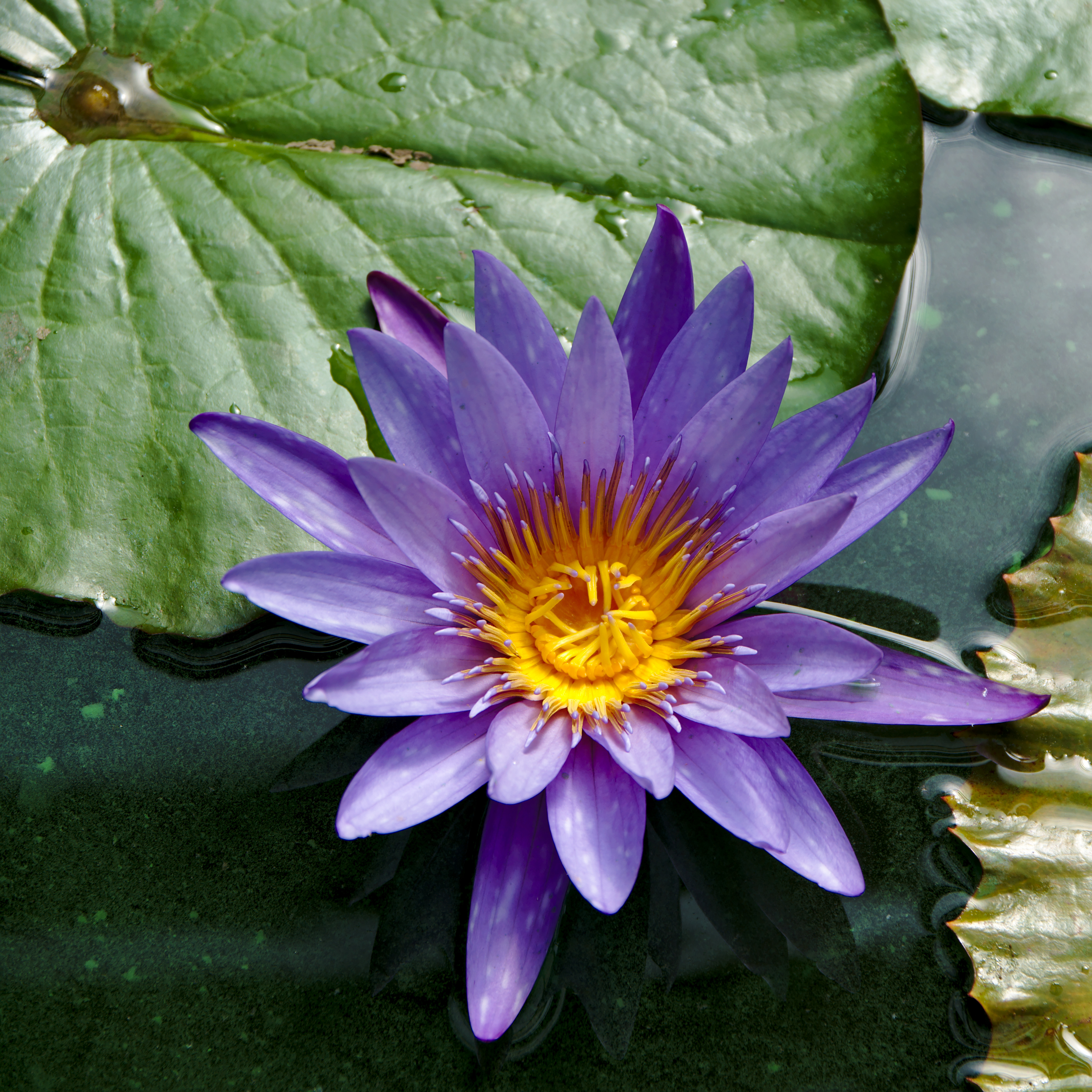 Blue tropical waterlily cultivar Nymphaea 'Islamorada' in botanical garden "Jardin des Martels".